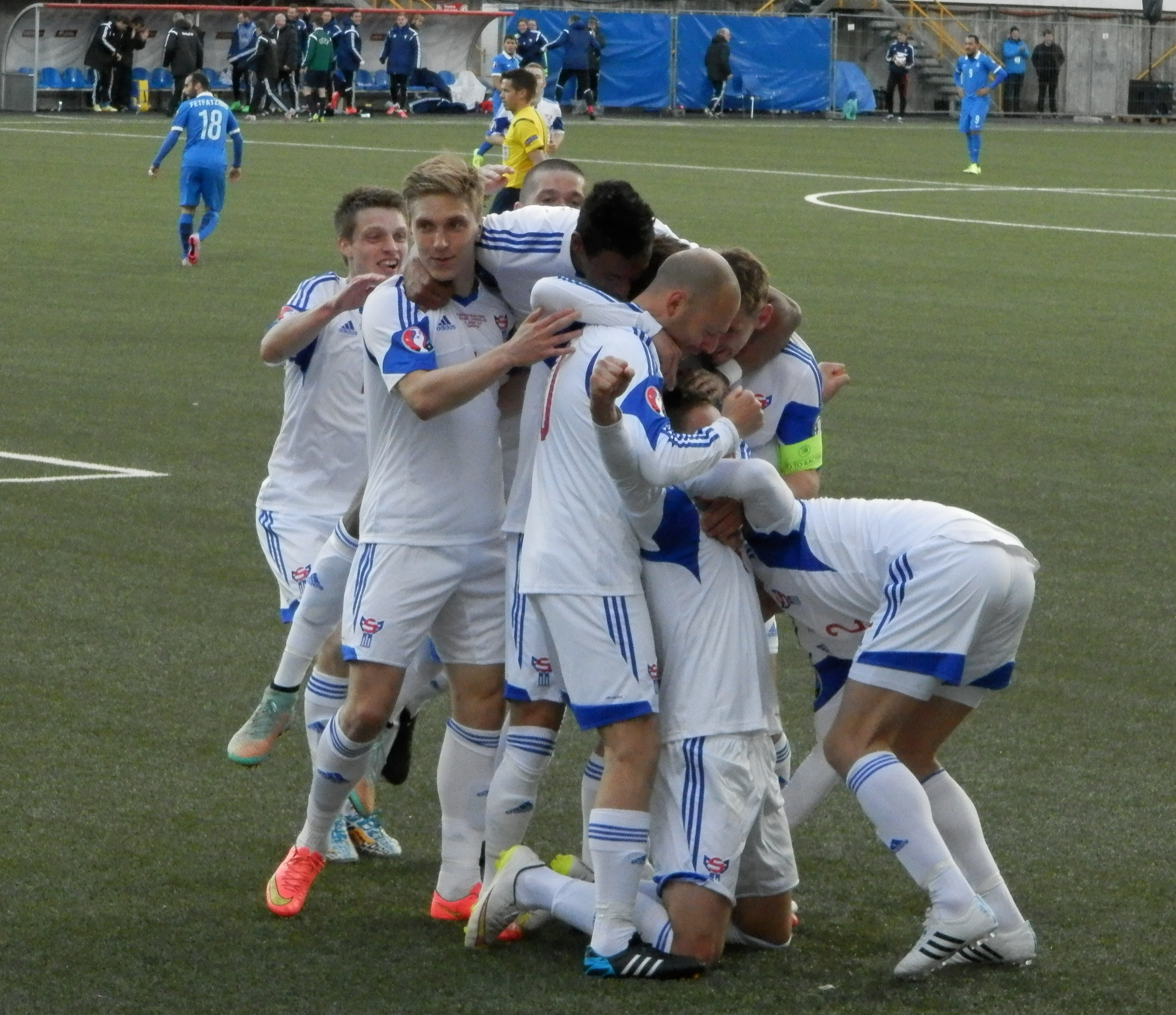 Faroese football players are celebrating after Hallur Hansson's 1-0 goal in the UEFA Euro qualification match against Greece which was played on 13 June 2015 on Tórsvøllur. Faroe Islands won 2-1.